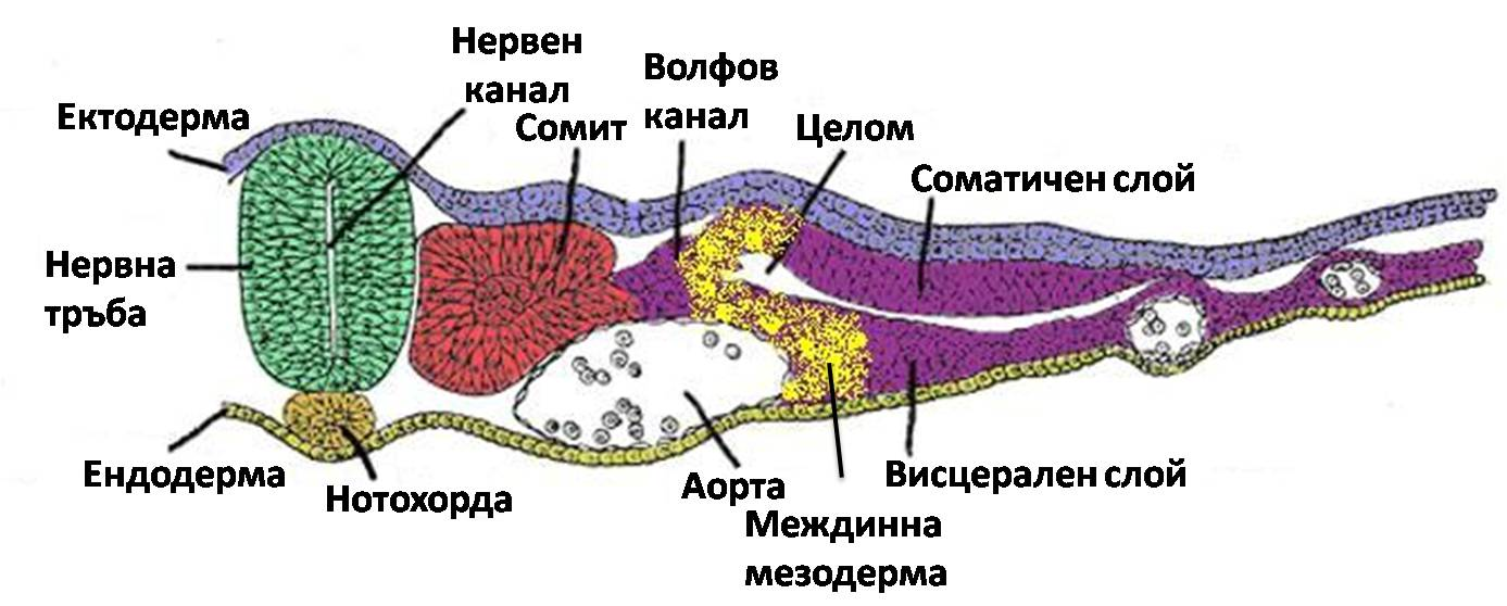 Colorized version of Image:Gray19.png, from Gray's Anatomy.